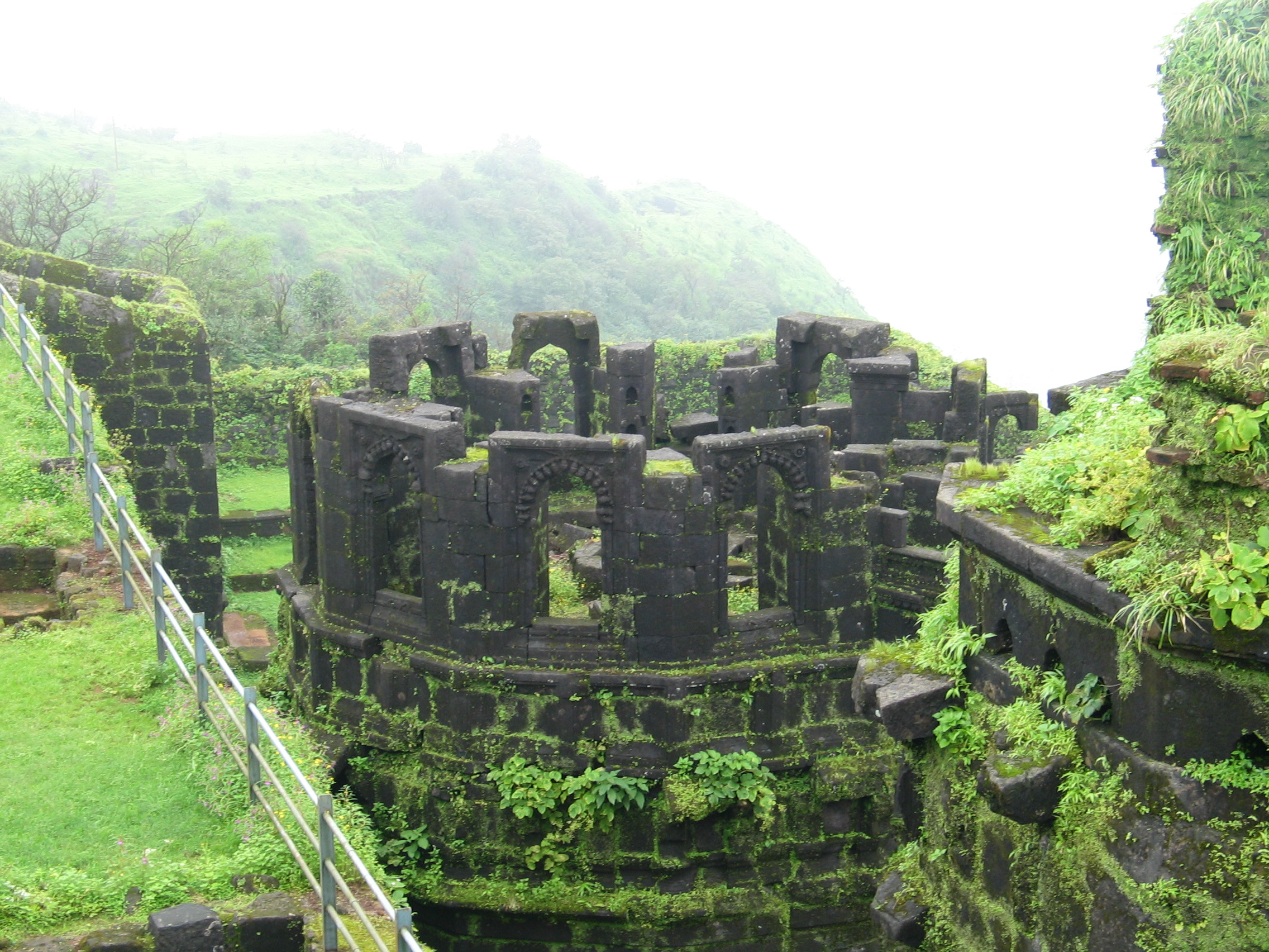 Photo of Shivaji's Raigad fort